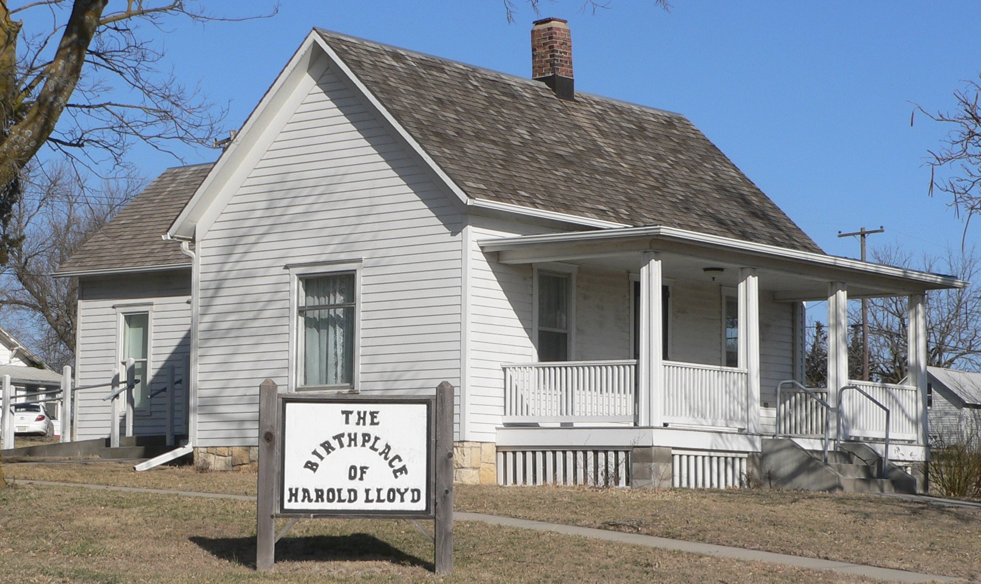 Birthplace of Harold Lloyd in Burchard, Nebraska; seen from the southeast.